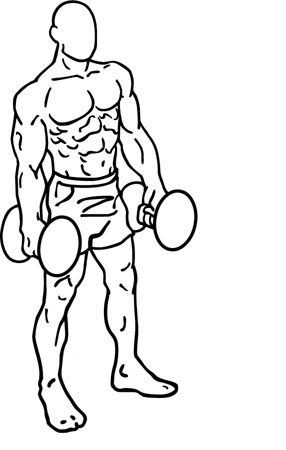 an exercise of hip